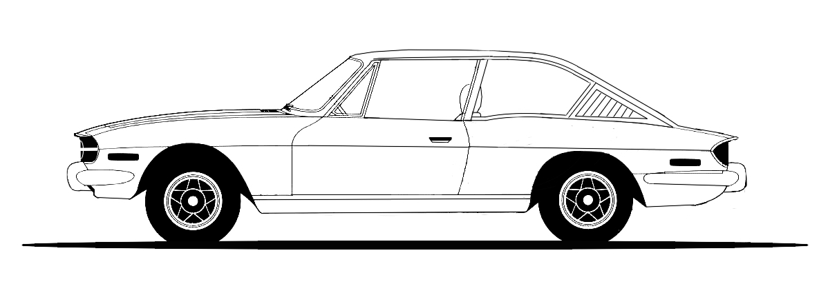 Sketch of the 1969/71 Triumph Stag Fastback Prototype (one-off)